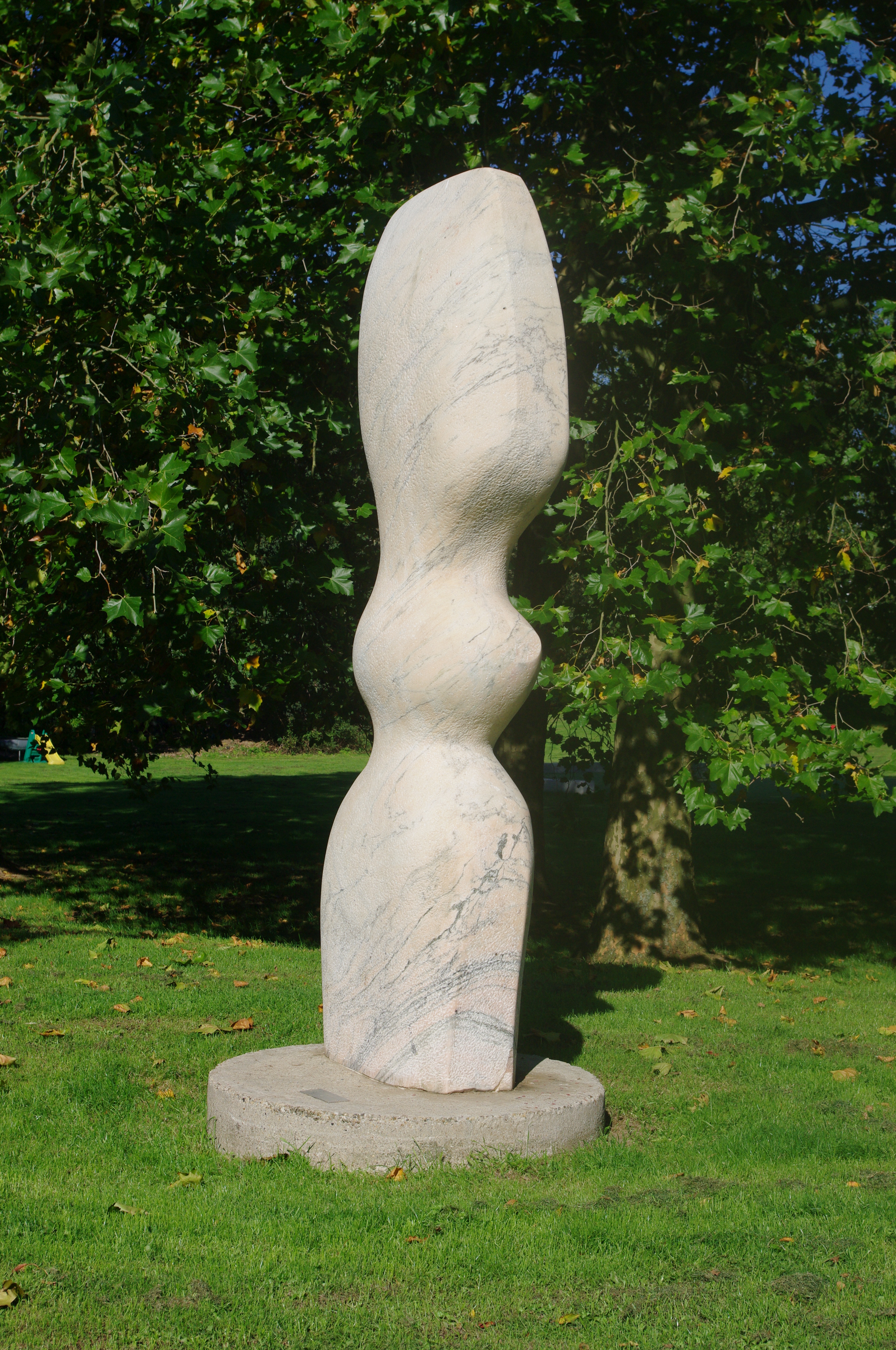 The sculpture Omtrent de kievit made by Ben van Pinxteren in Nijmegen.